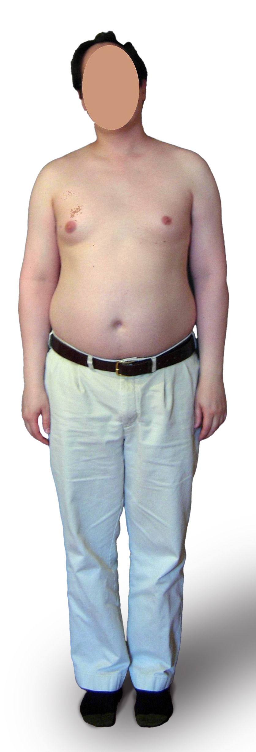 pos03 photo of model A001 for Body Morphology Project